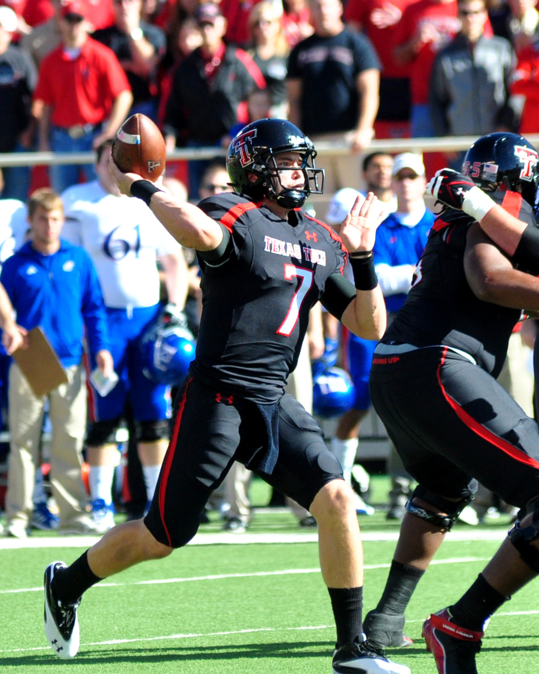 Seth Doege in action with the Texas Tech Red Raiders during a victory over Kansas in November 2012.